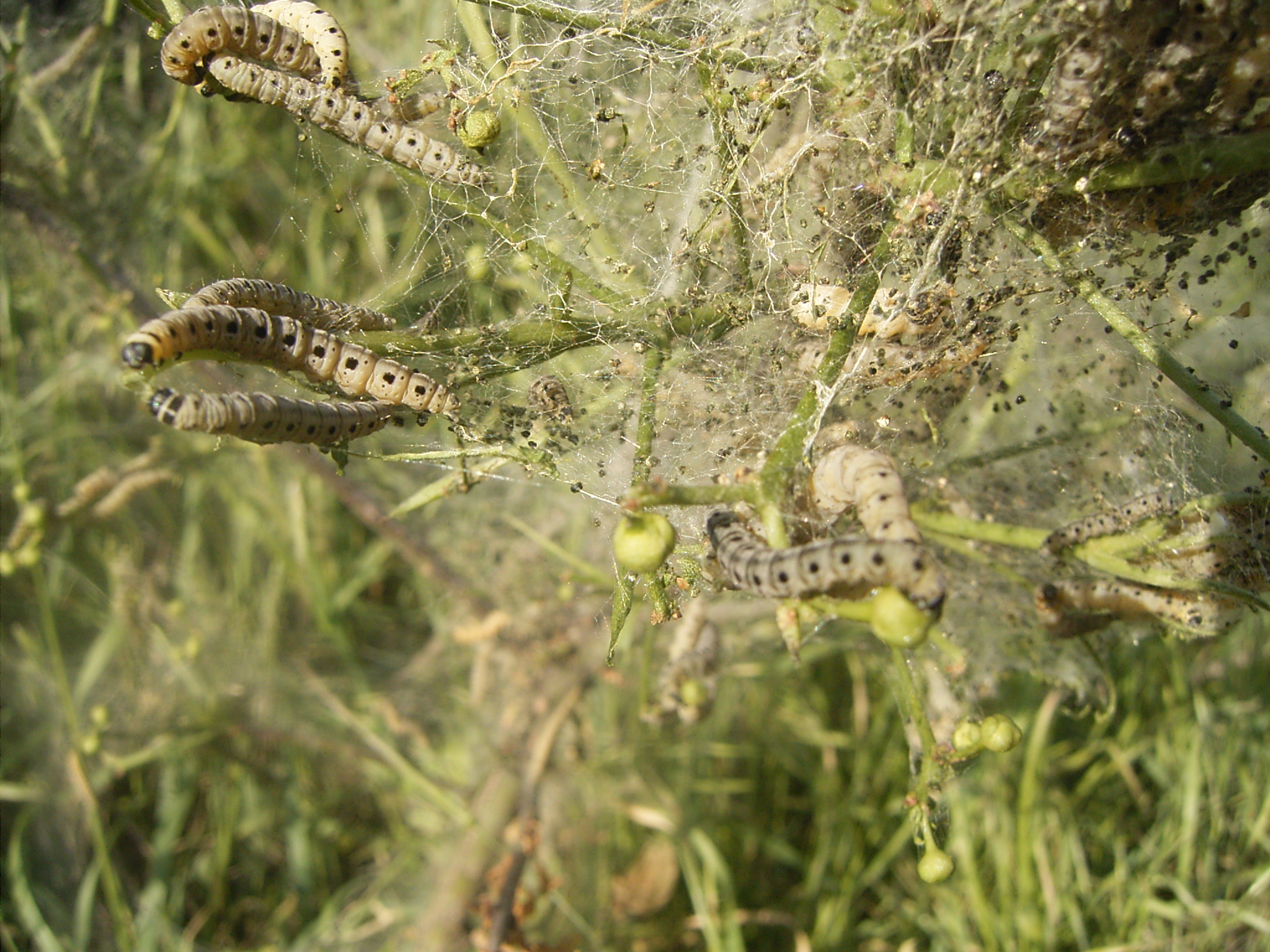 This photo shows the larvae of Yponomeuta cagnagellus